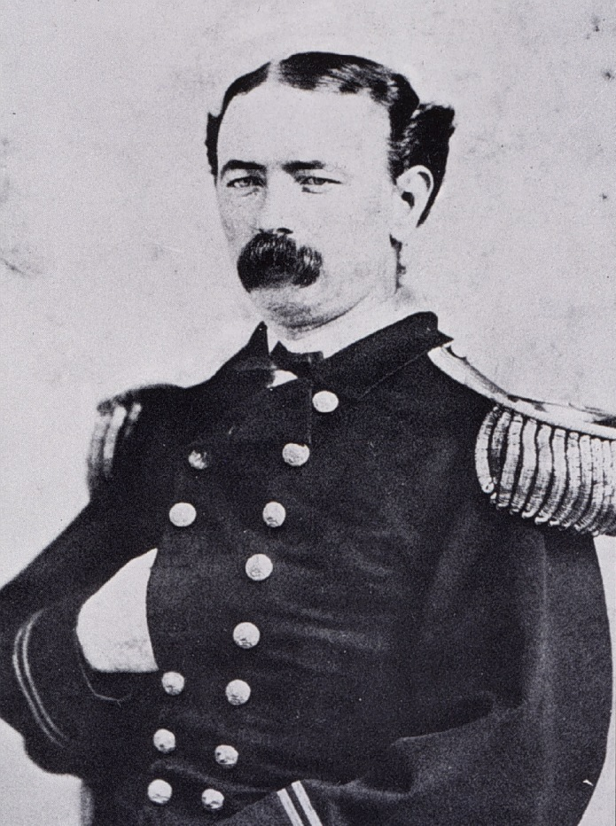 Cleveland S. Rockwell, Captain, Union Army, Corps of Topographical Engineer, Army of the Ohio, 1864